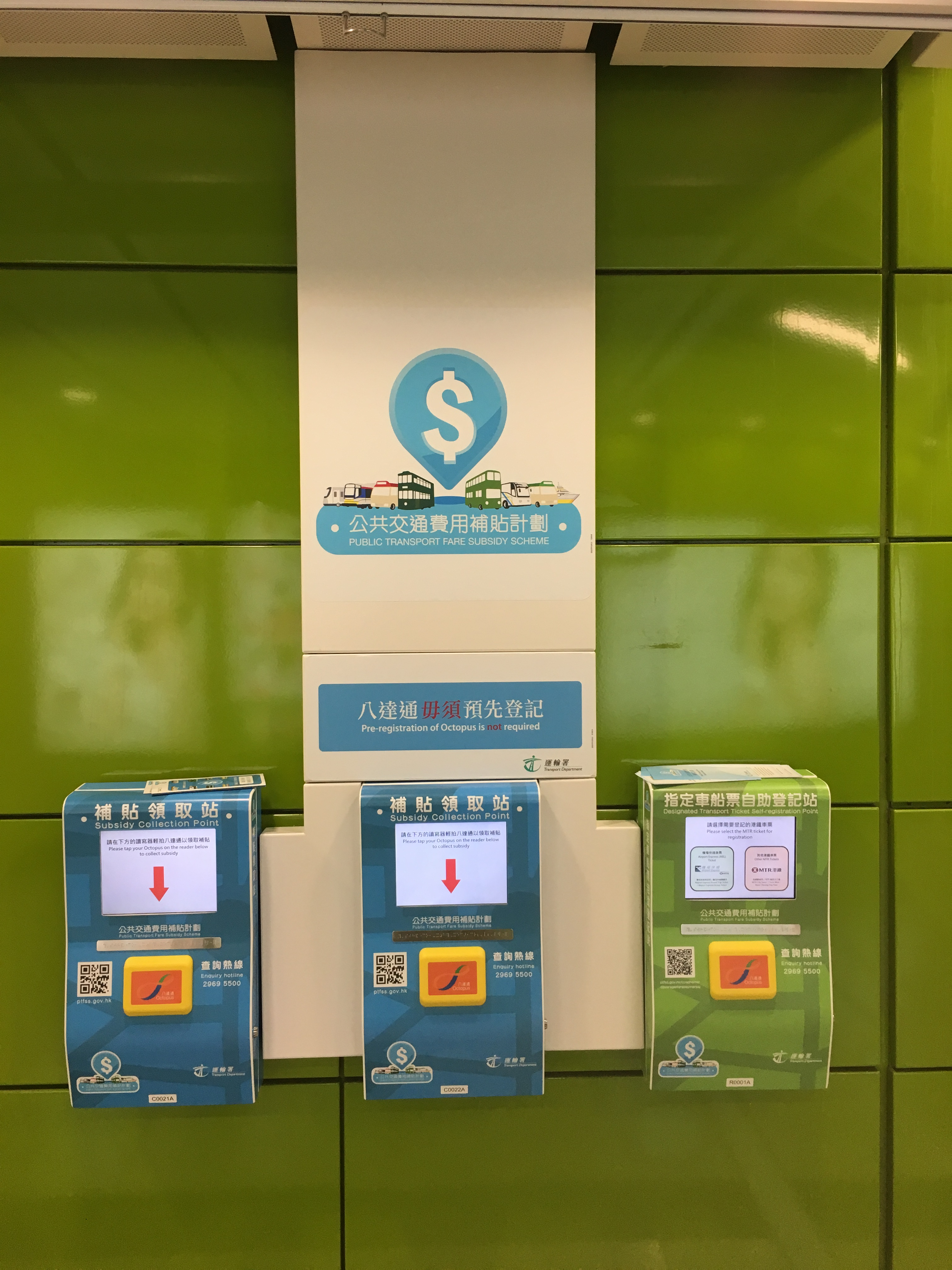 中文（香港）: This photo is taken in South Horizons Station.